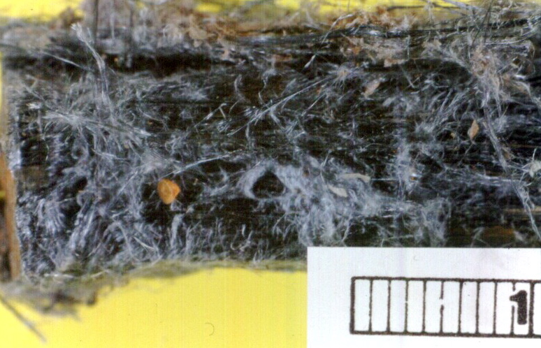 Blue asbestos (crocidolite) from the now closed mine at Wittenoom, Western Australia. The fibrous nature of the mineral is apparent.